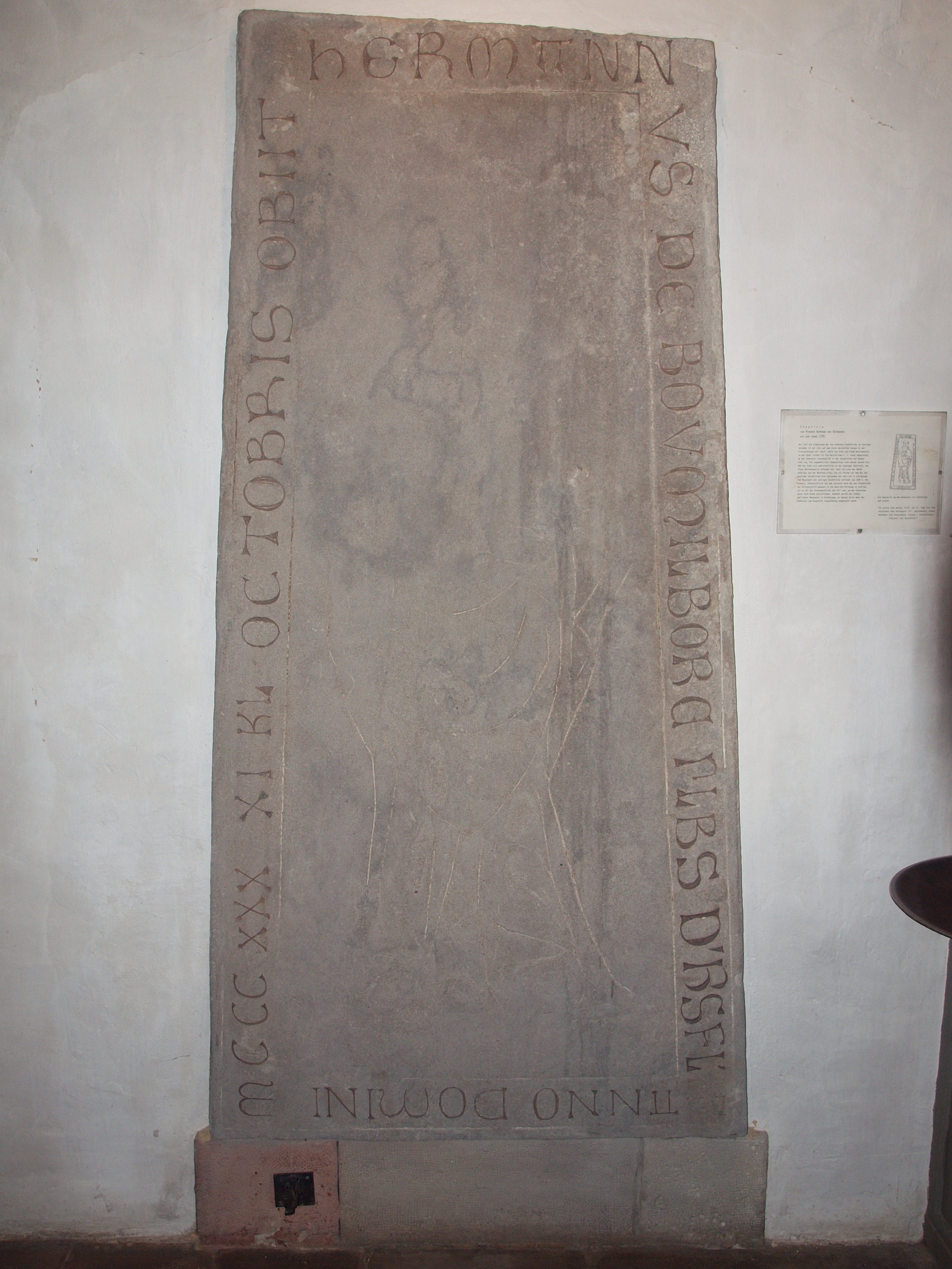 Tomb slab of Hermann de Boumilborg († 21st of September 1330), first parson in gothic parish church.